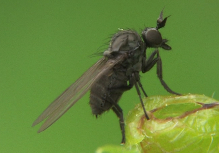 Microphor holosericeus, female